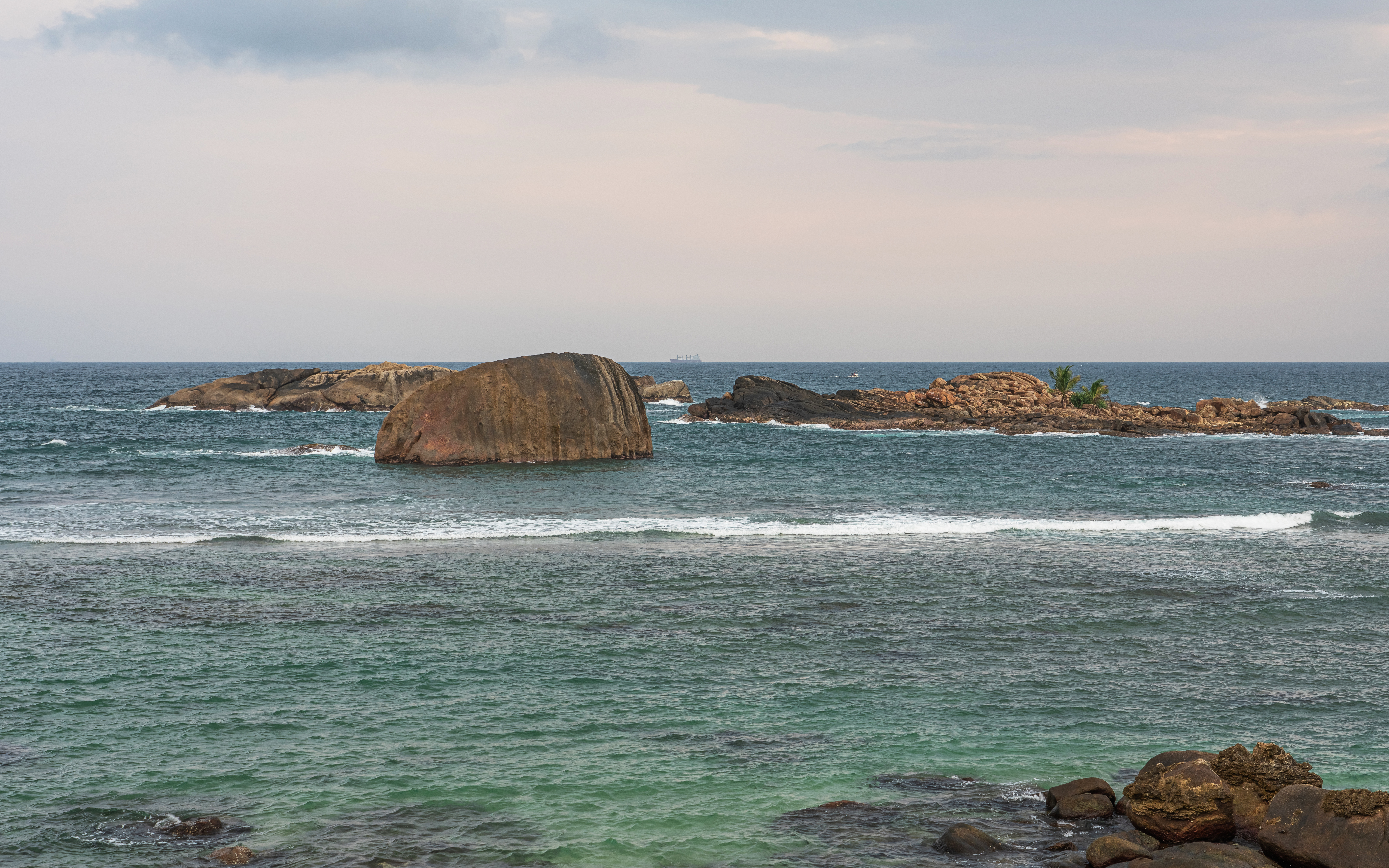 Sea view from the rampart in the Dutch Fort of Galle, Sri Lanka